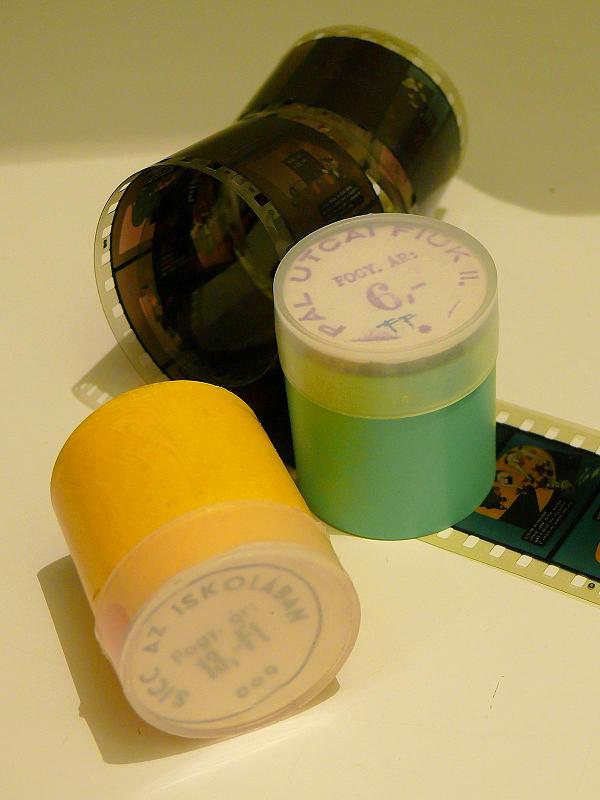 Hungarian filmstrips